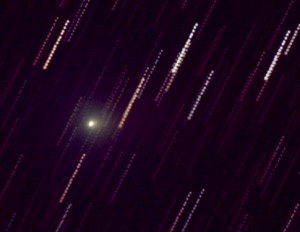 Comet 103P/Hartley as seen from a four inch telescope